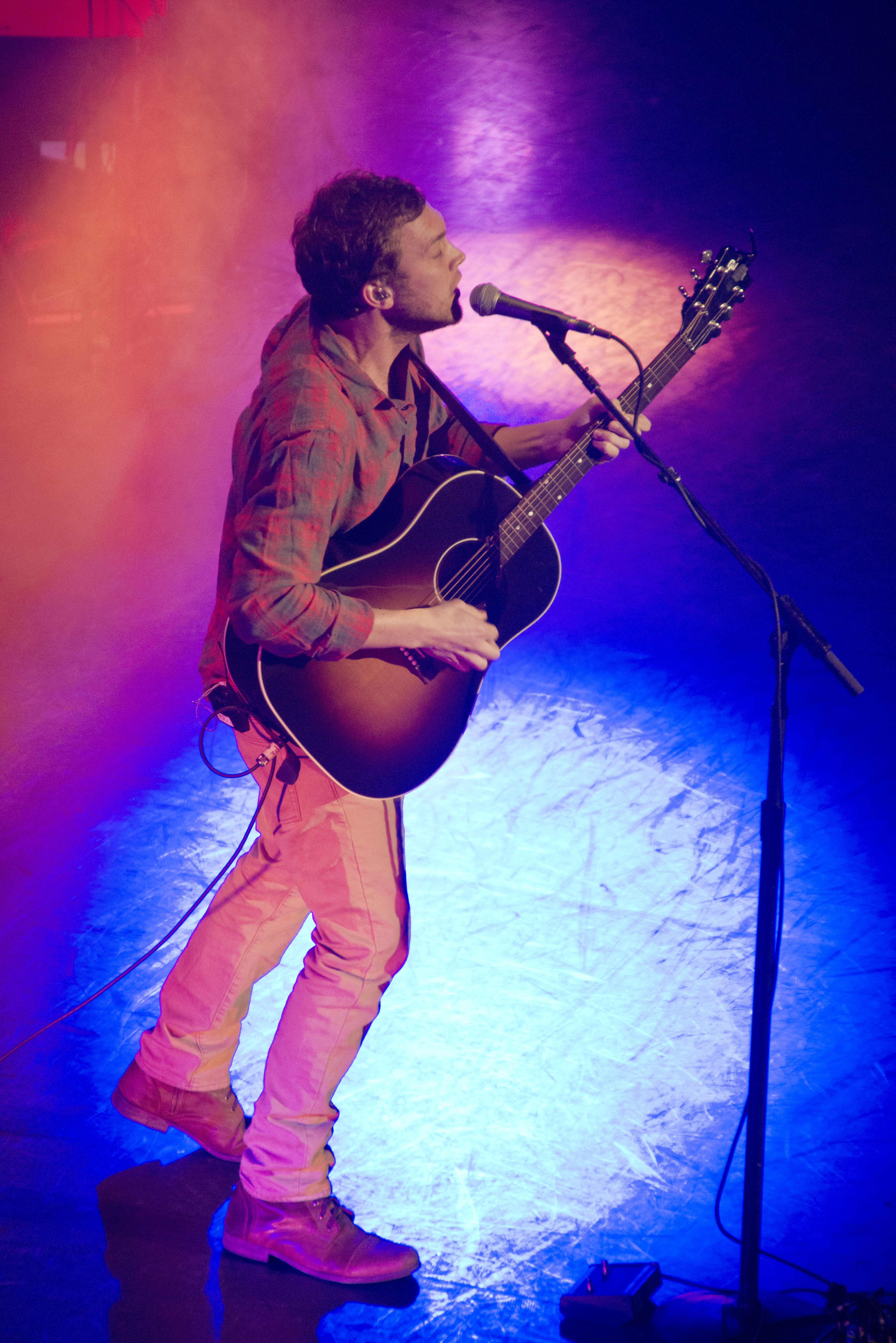 Phillip Phillips performing in 2014